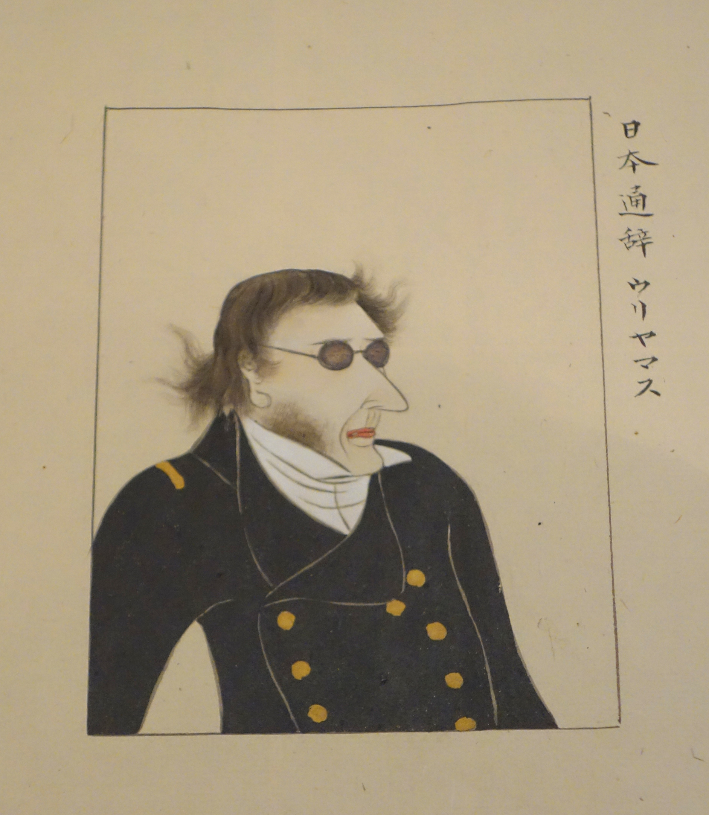 Commodore Perry expedition to Japan. Exhibit in the Sanada Treasure Museum, 4-1 Matsushiromachi, Matsushiro, Nagano, Japan. This artwork is old enough so that it is in the public domain.